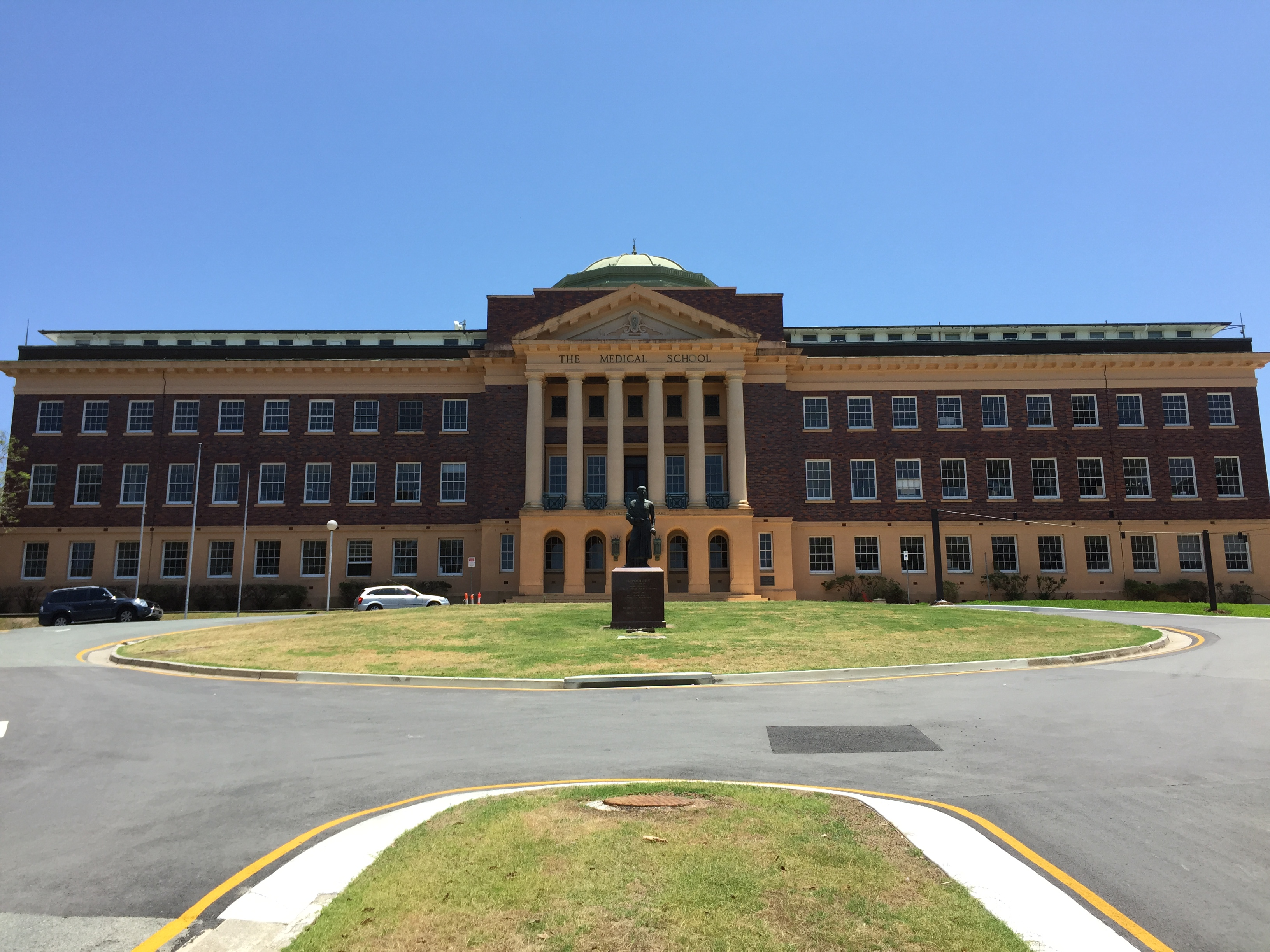 Mayne Medical School, The University of Queensland, 288 Herston Road, Herston, Brisbane, QLD, Australia